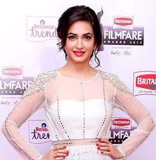 Kriti Kharbanda at Filmfare South Awards 2014-Held on 26 June 2015 at Nehru Indoor Stadium, Chennai